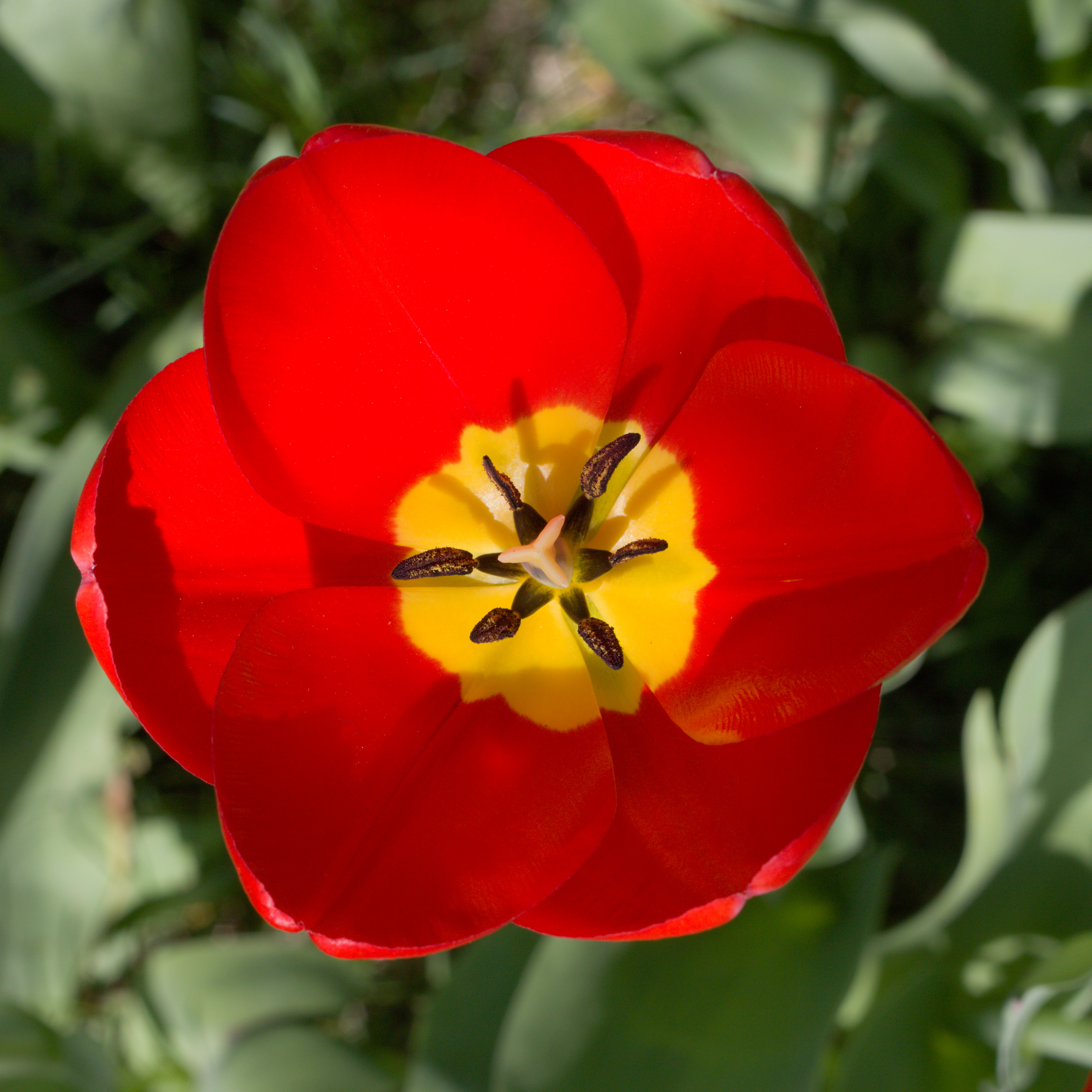 6 tepals, 6 stamens and a syncarpous gynoecium of 3 carpels